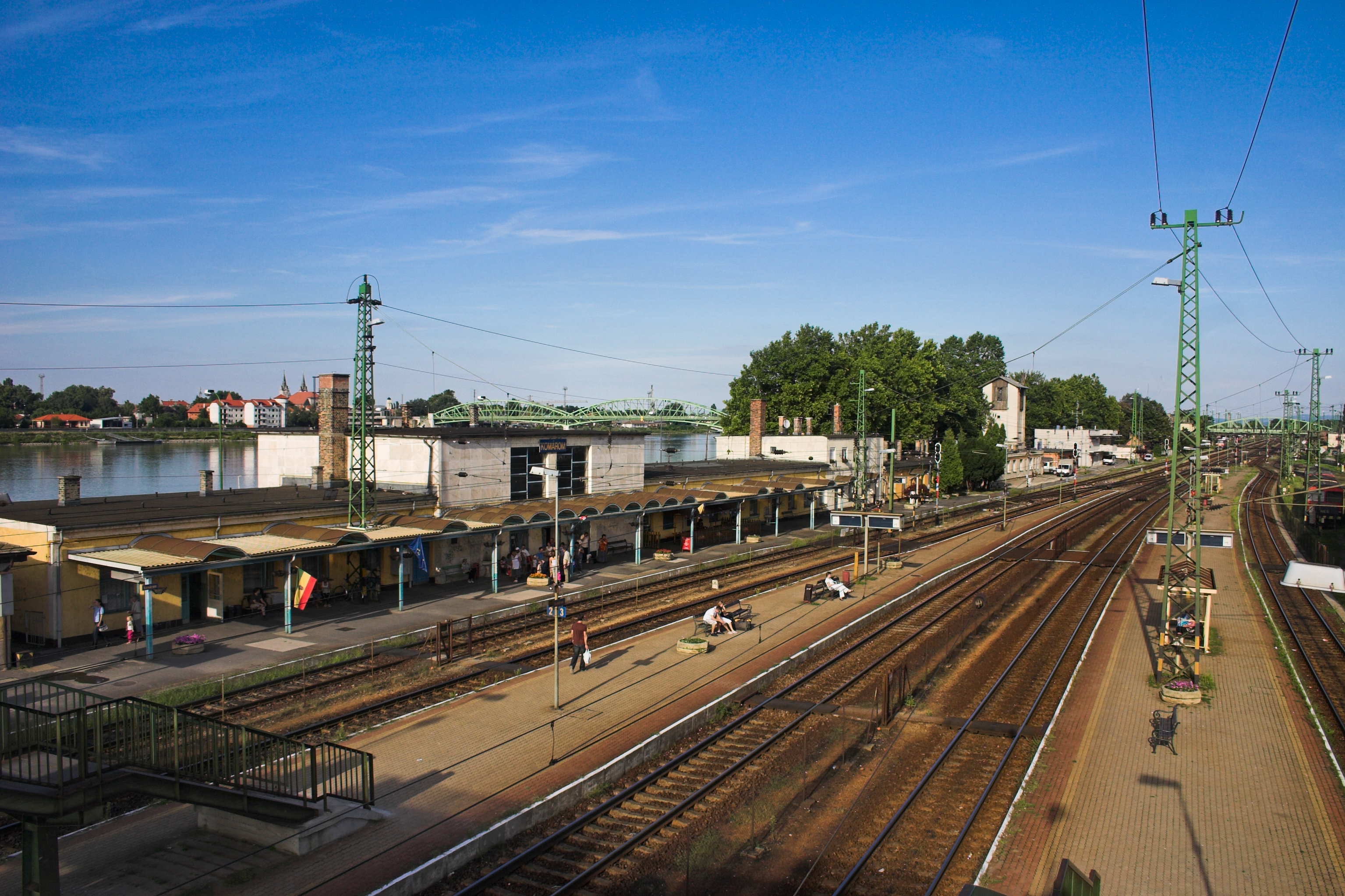 Railway station in Komárom, Hungary.